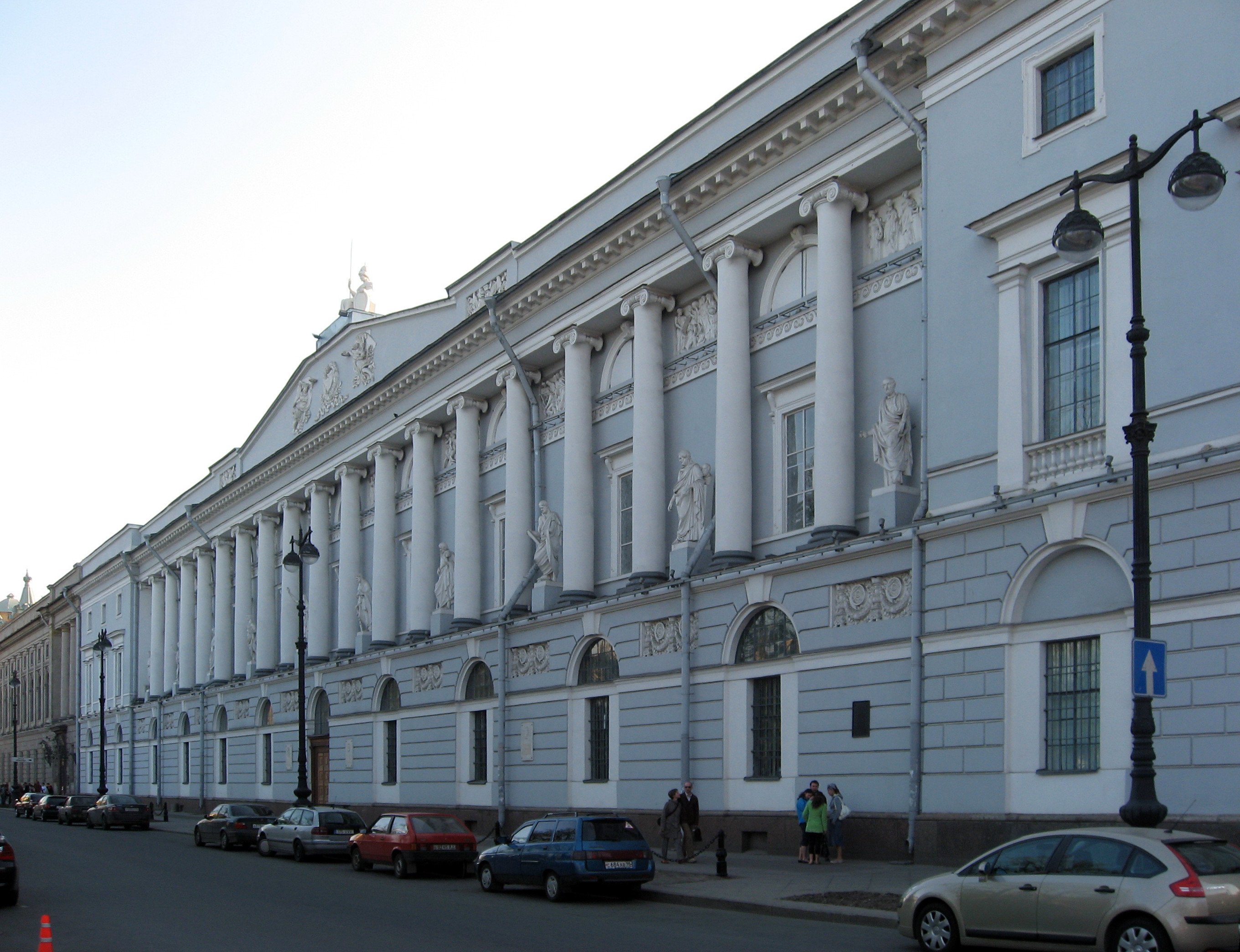 Saint Petersburg (Russia), Nevsky Avenue.